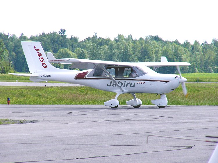 I took this photo of a Jabiru 450 (C-GAHU) at Cornwall on 19 June 2005